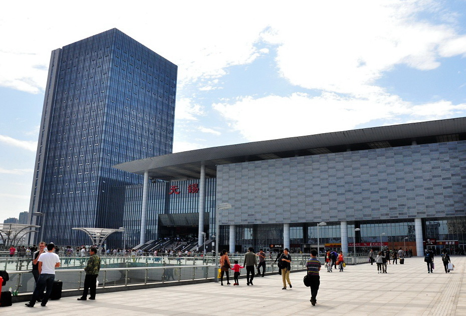 Wuxi Railway Station